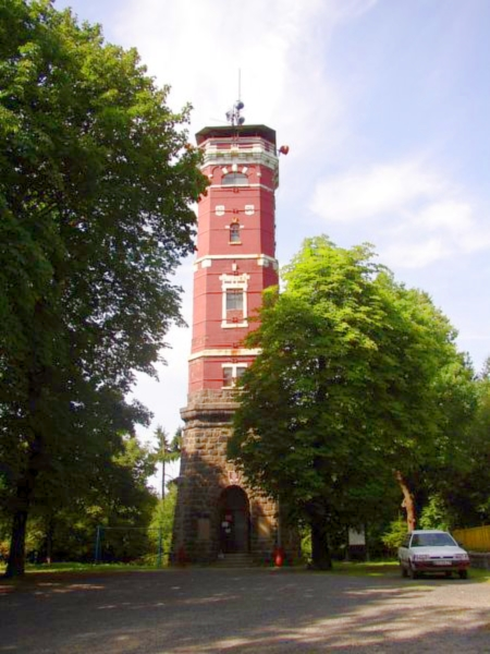 Tanečnice (597 m)